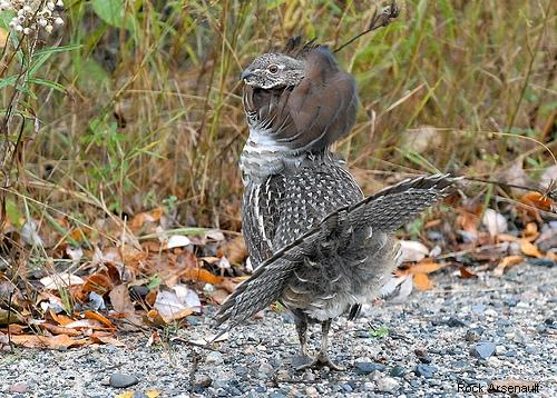 Ruffed Grouse displaying